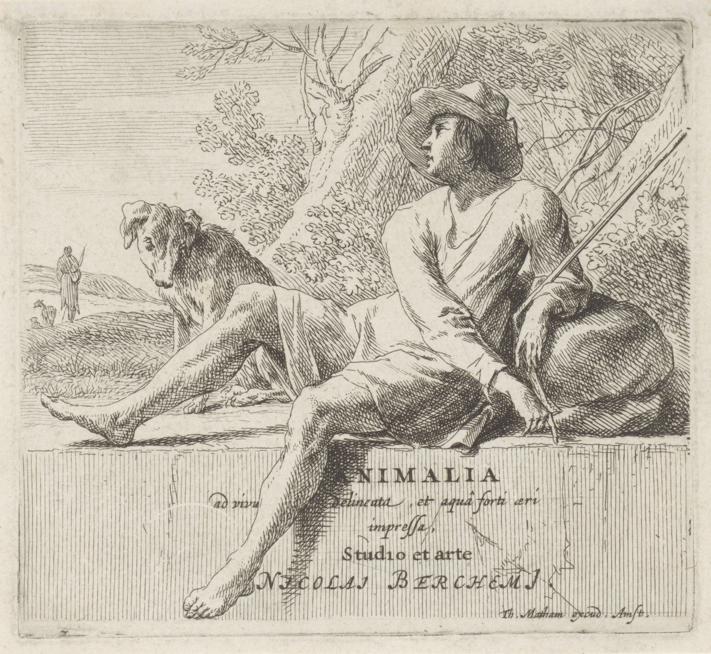 Part of the series {name }.